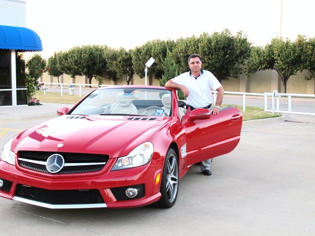 Kevin Matin Blue Planet Auto